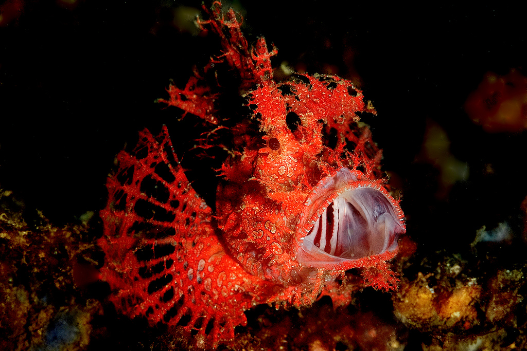 The Rhinopias frondosa (Scorpionfish) likes to sit out in the open ,perching on sponges or coral,pretending to be a crinoid. A very sedentary animal, if not molested it will be found for a numner of year in the same area . The size is about 10~15cm. very rare to see. all sizes in this photo show more details.